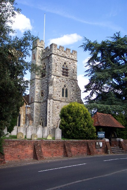 Lychgate and west tower of St Mary the Virgin parish church, Horsell, Surrey, seen from the northwest